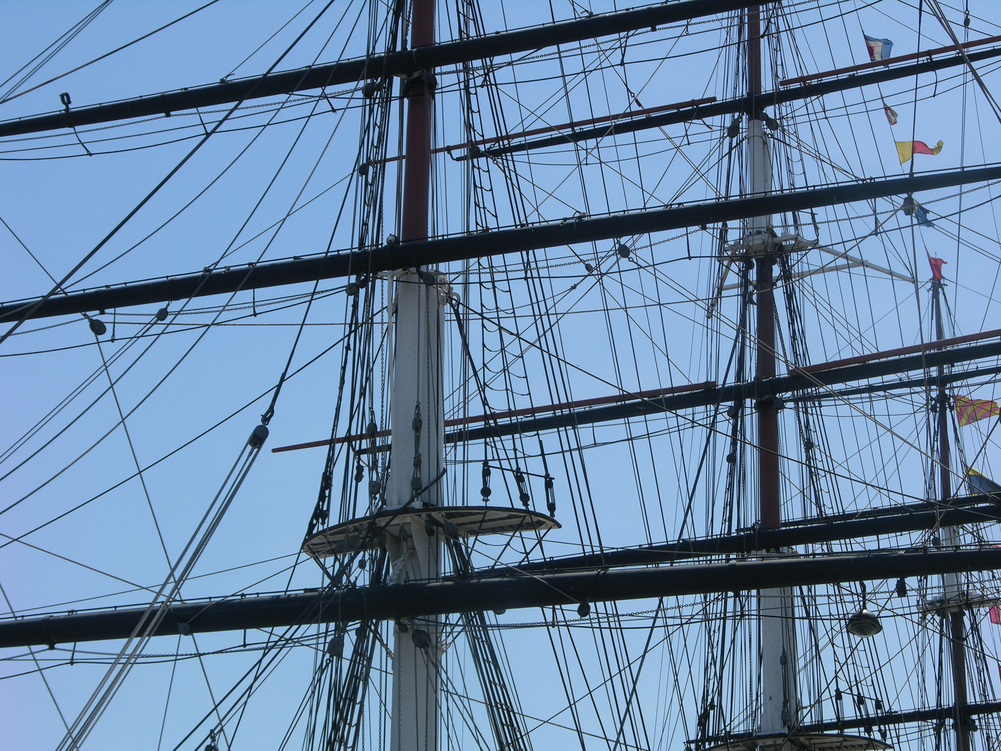 Cutty Sark rigging